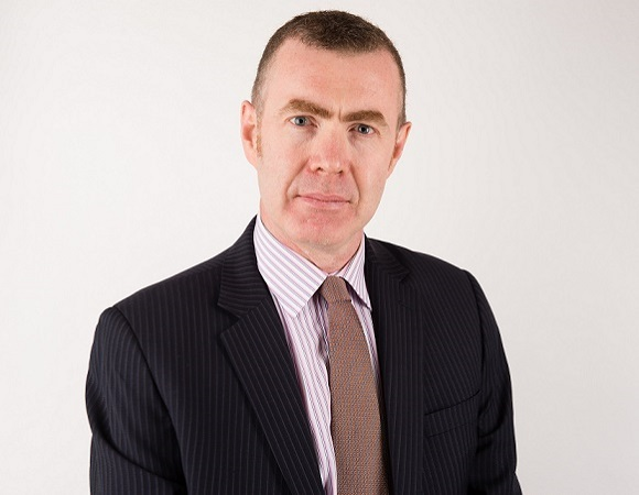 Portrait of Adam Price